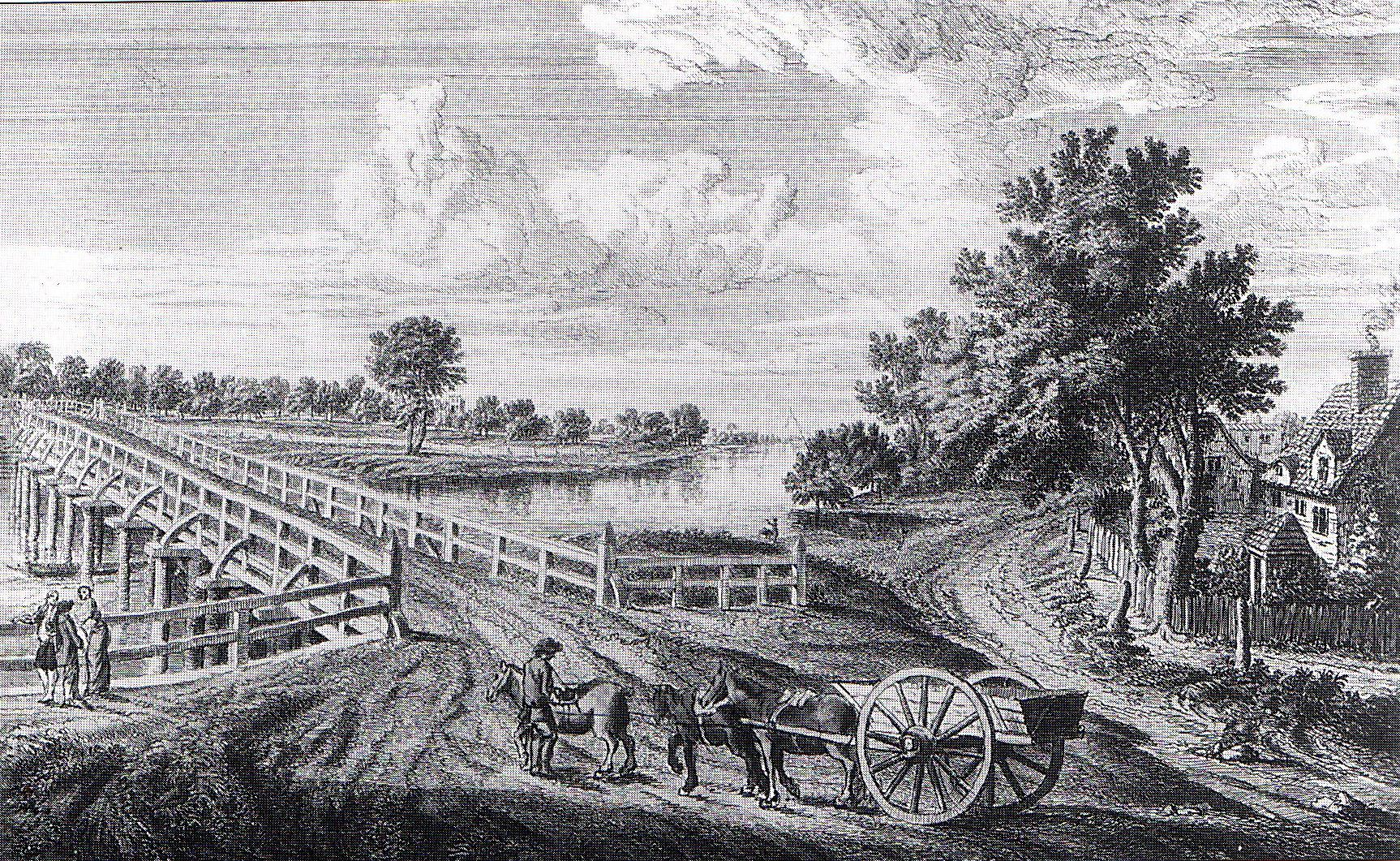 Datchet Bridge circa 1750